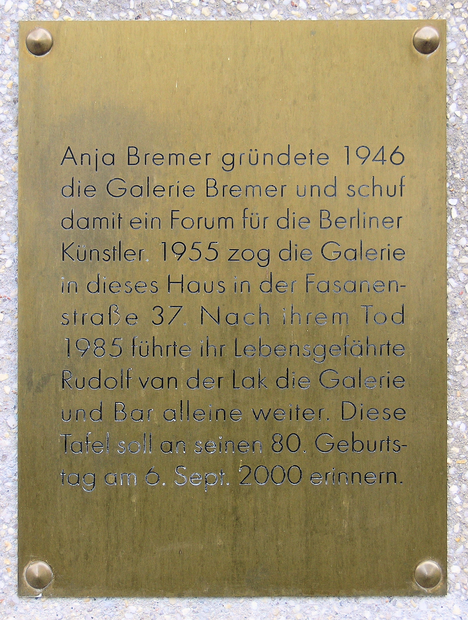 Memorial plaque, Anja Bremer, Fasanenstraße 37, Berlin-Wilmersdorf, Germany